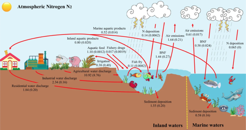 Schematic model of national Nr cycling in China’s aquaculture ecosystem. The unit is Tg N yr−1. The red lines represent Nr flow. The numbers in front of the parentheses represent the Nr flux in 2015; the numbers in parentheses represent the Nr flux in 1978. Only major flows are presented in this figure, but the flow description and data acquisition section in the methods section of this paper provide an overview of all simulated flows.